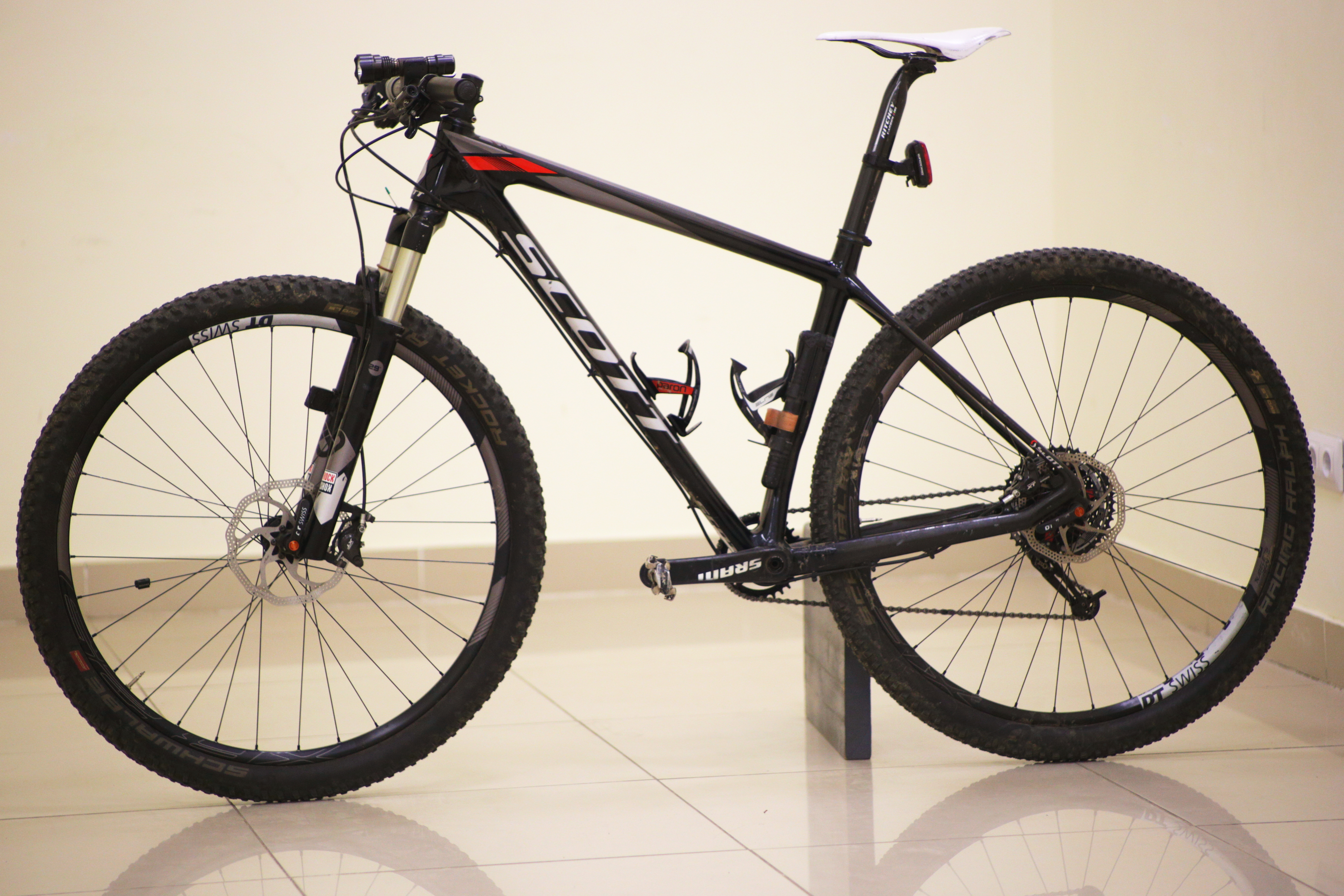 Scott Scale 910 mountain bike